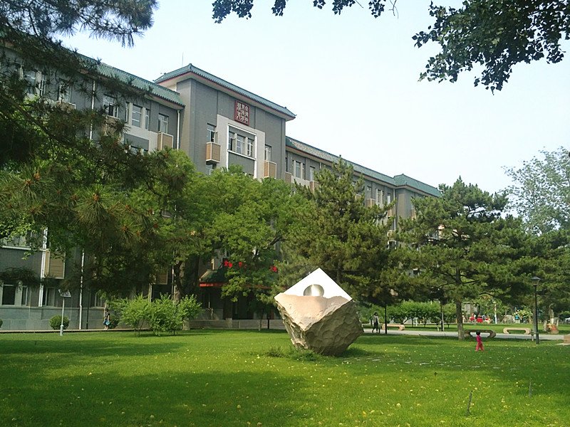 The 1#Teaching Building and the Confucius Square